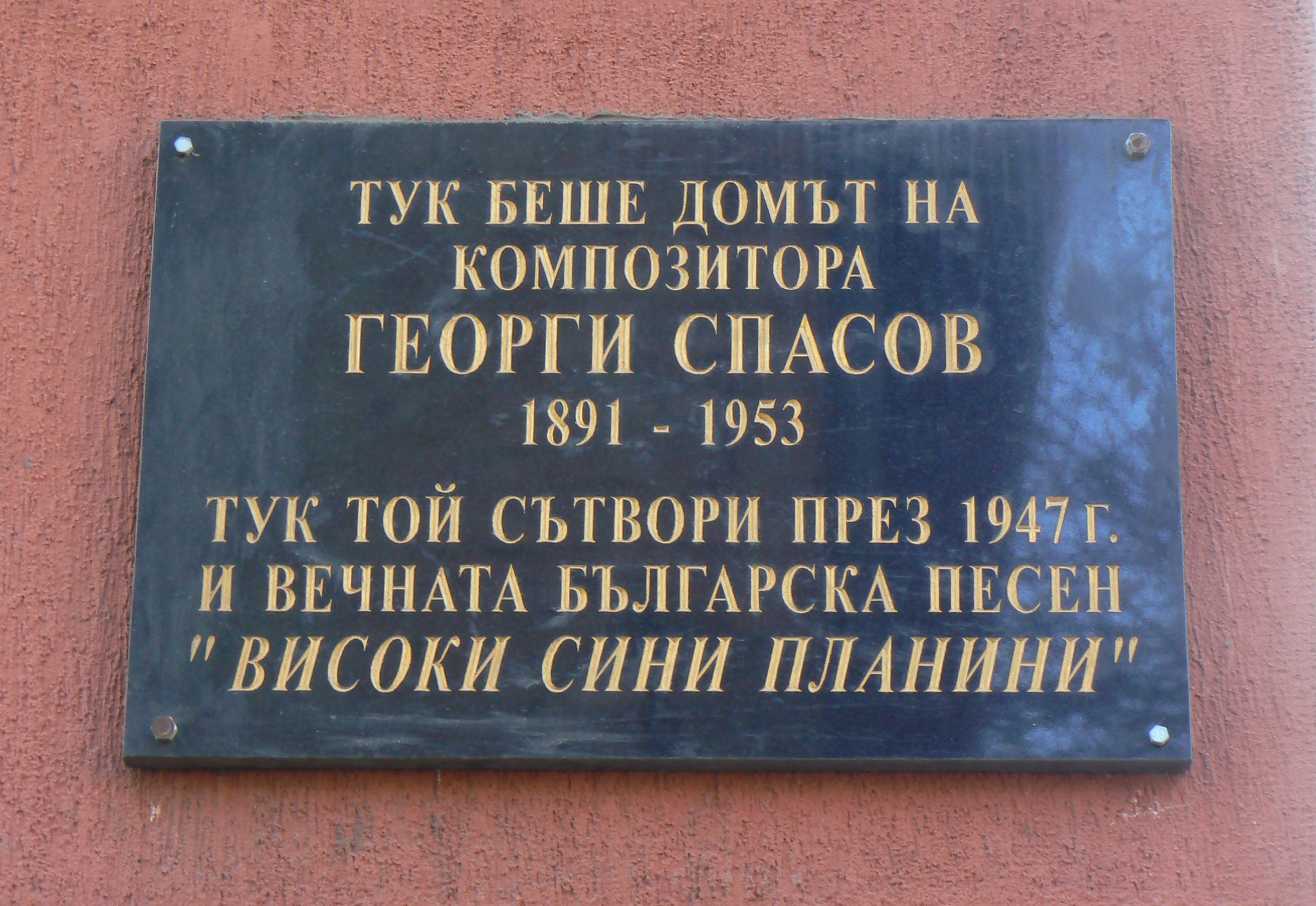 On this place there used to be the home house of the Bulgarian composer Georgi Spasov